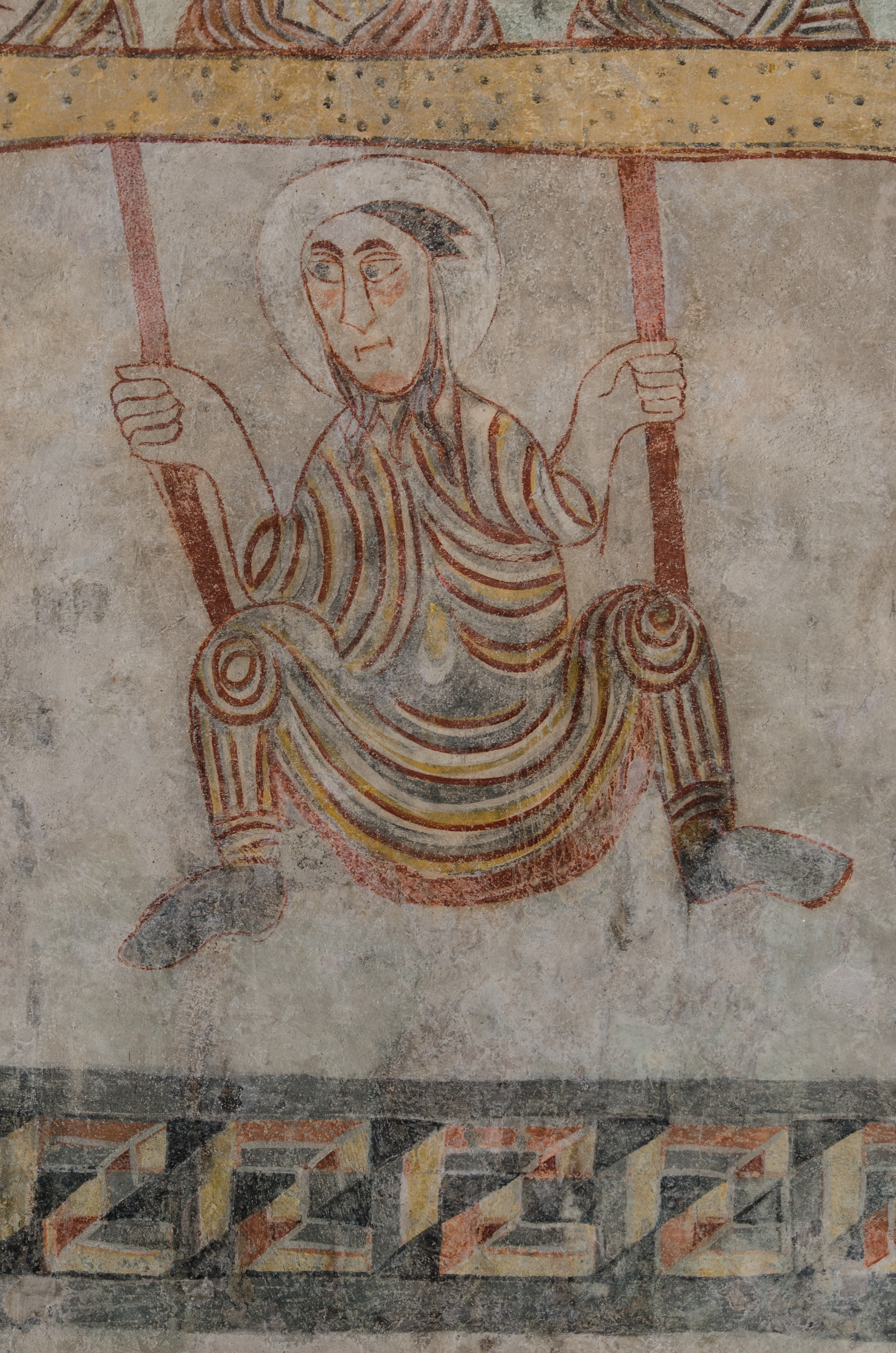 Romanesque fresco of St. Proculus in the church St. Proculus, 7th century, Naturns, South Tyrol, Italy. Notable is the wrong grip to the rope.